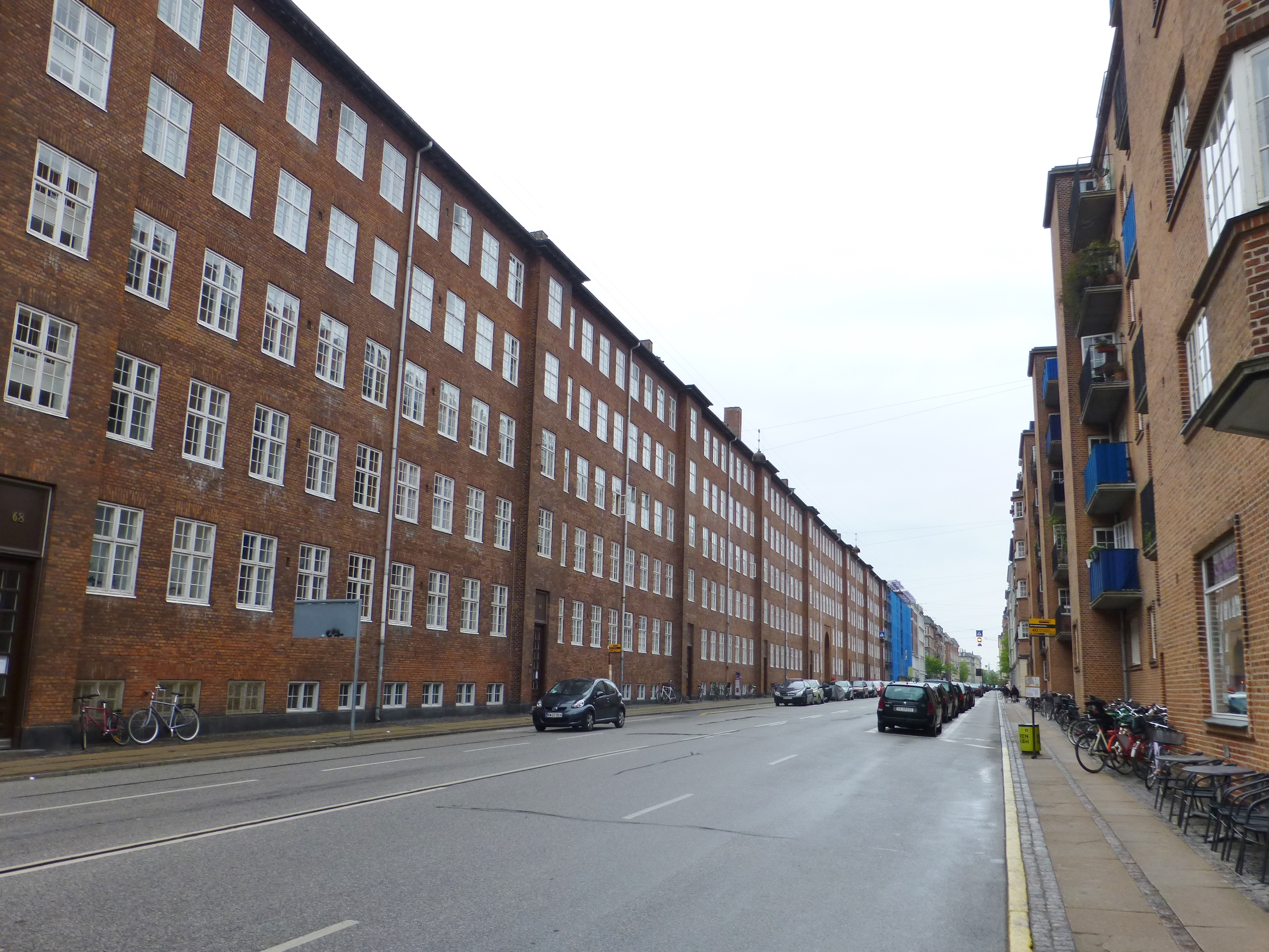 The street Classensgade at Strandboulevarden in Østerbro in Copenhagen.